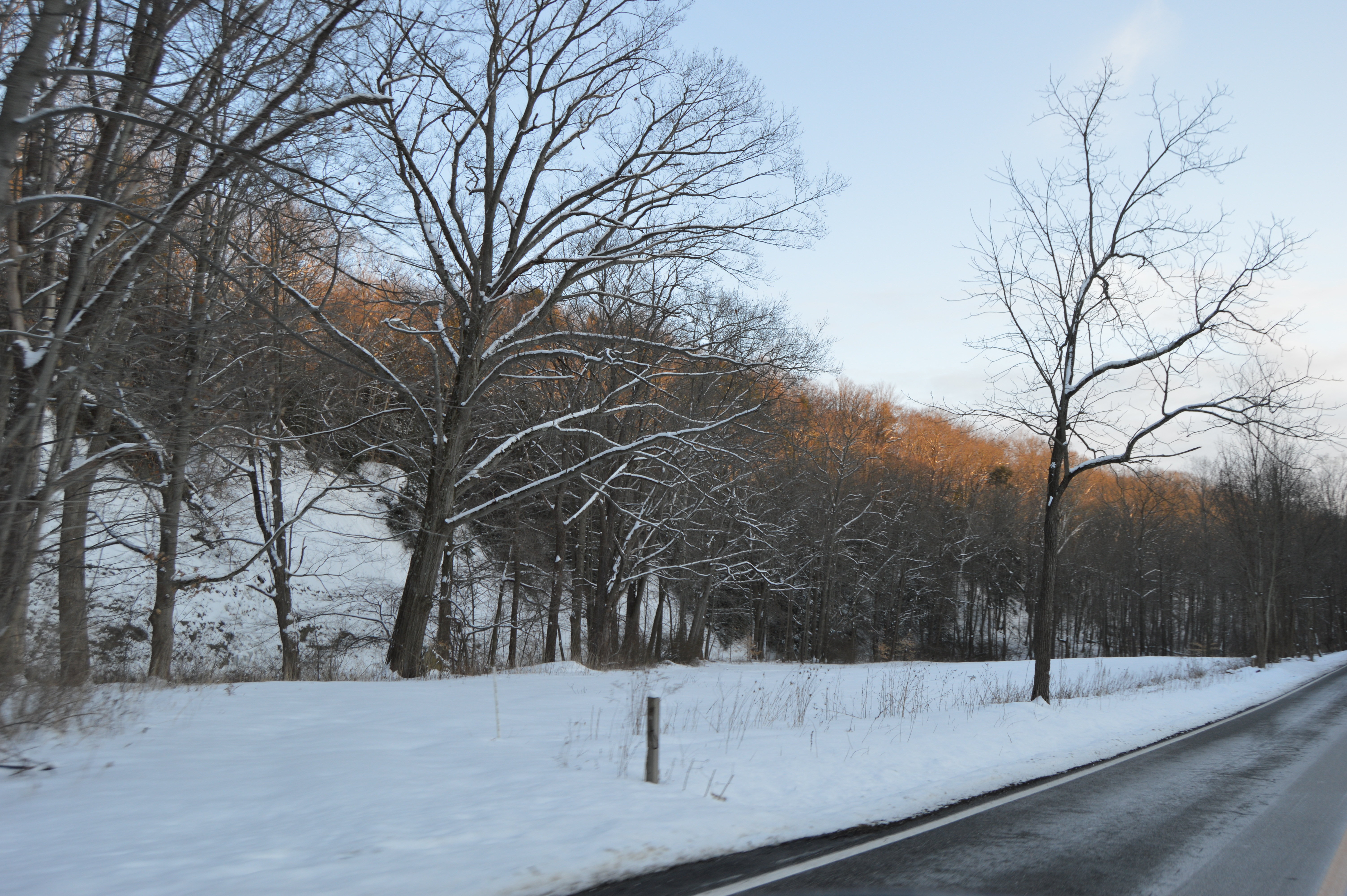 A wooded hillside on the western side of Geauga Lake Road in Bainbridge Township, Geauga County, Ohio, United States. This land is part of the Lost Lane Farm property, which is listed on the National Register of Historic Places.